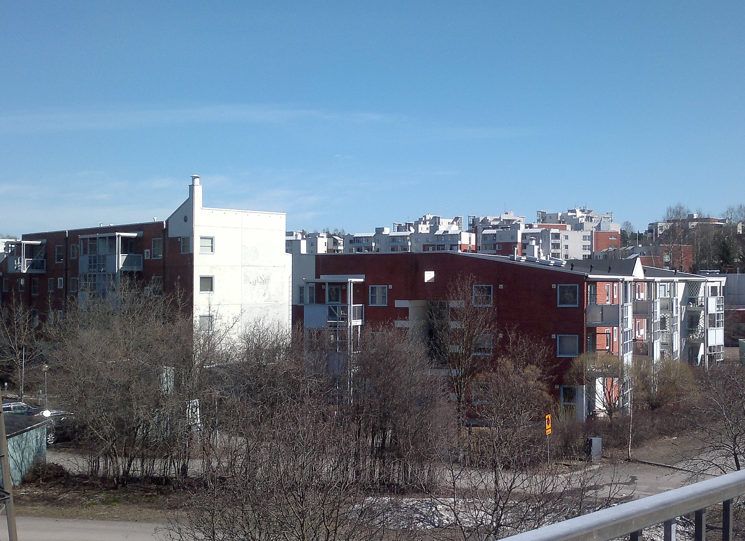 Houses in Mellunmäki quarter, Helsinki